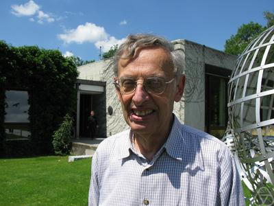 Mathematician Elias M. Stein at the workshop “Real Analysis, Harmonic Analysis and Applications” in Oberwolfach, 2008.